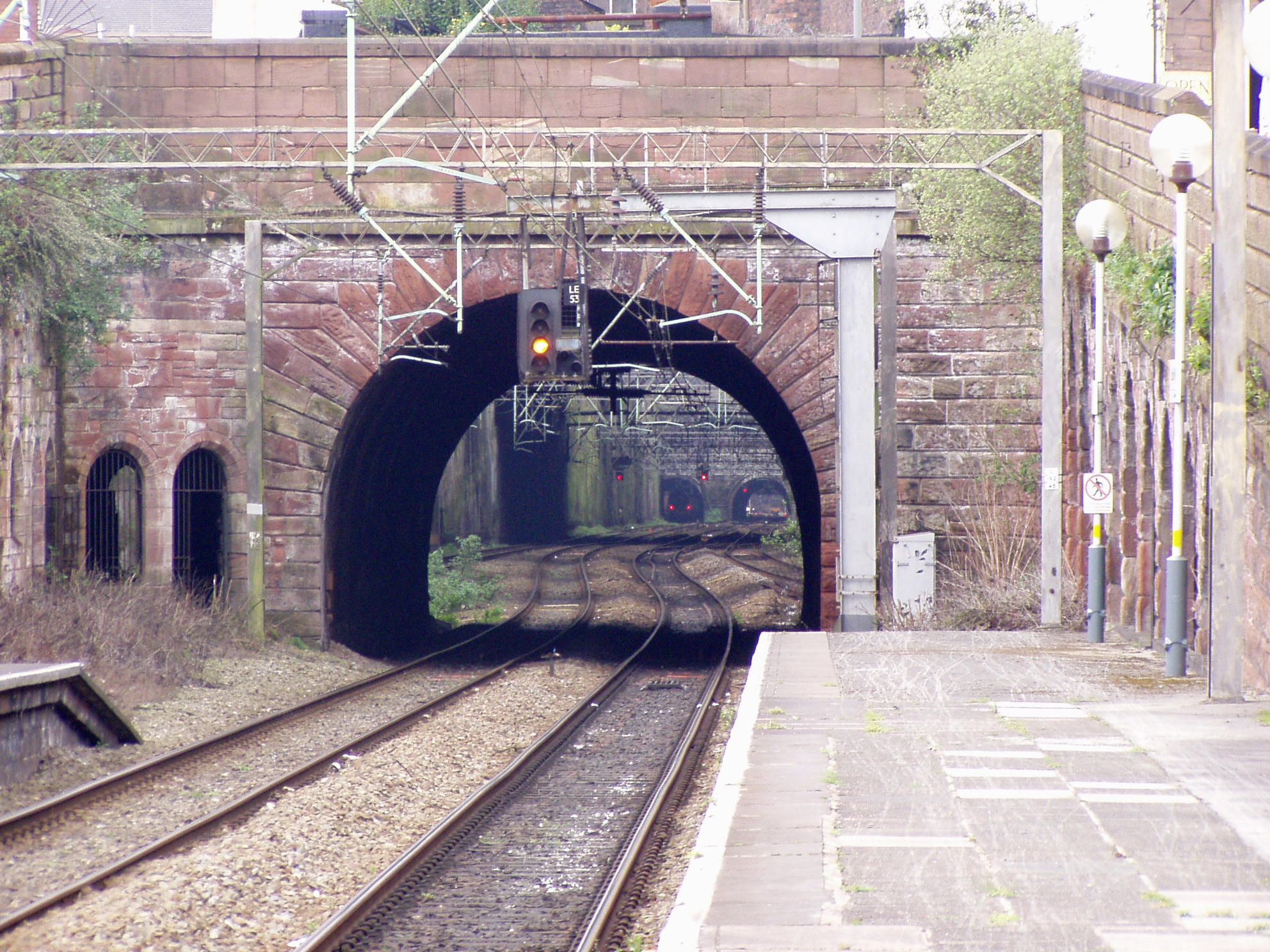 Start of Lime Street Tunnel/Cutting at Edge Hill Station